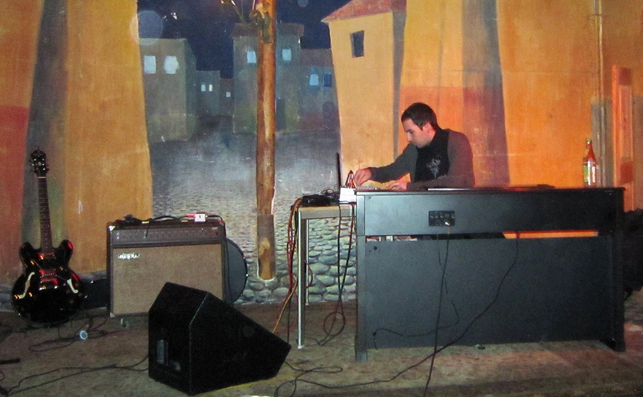 Library Tapes in concert, Kafé Kult, Munich, Germany, February 2011